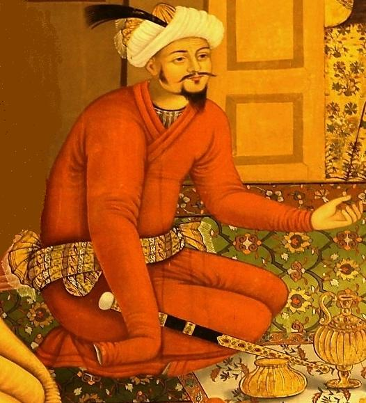 Picture of Bukharan ruler Vali Mukhamad khan in Isfaghan